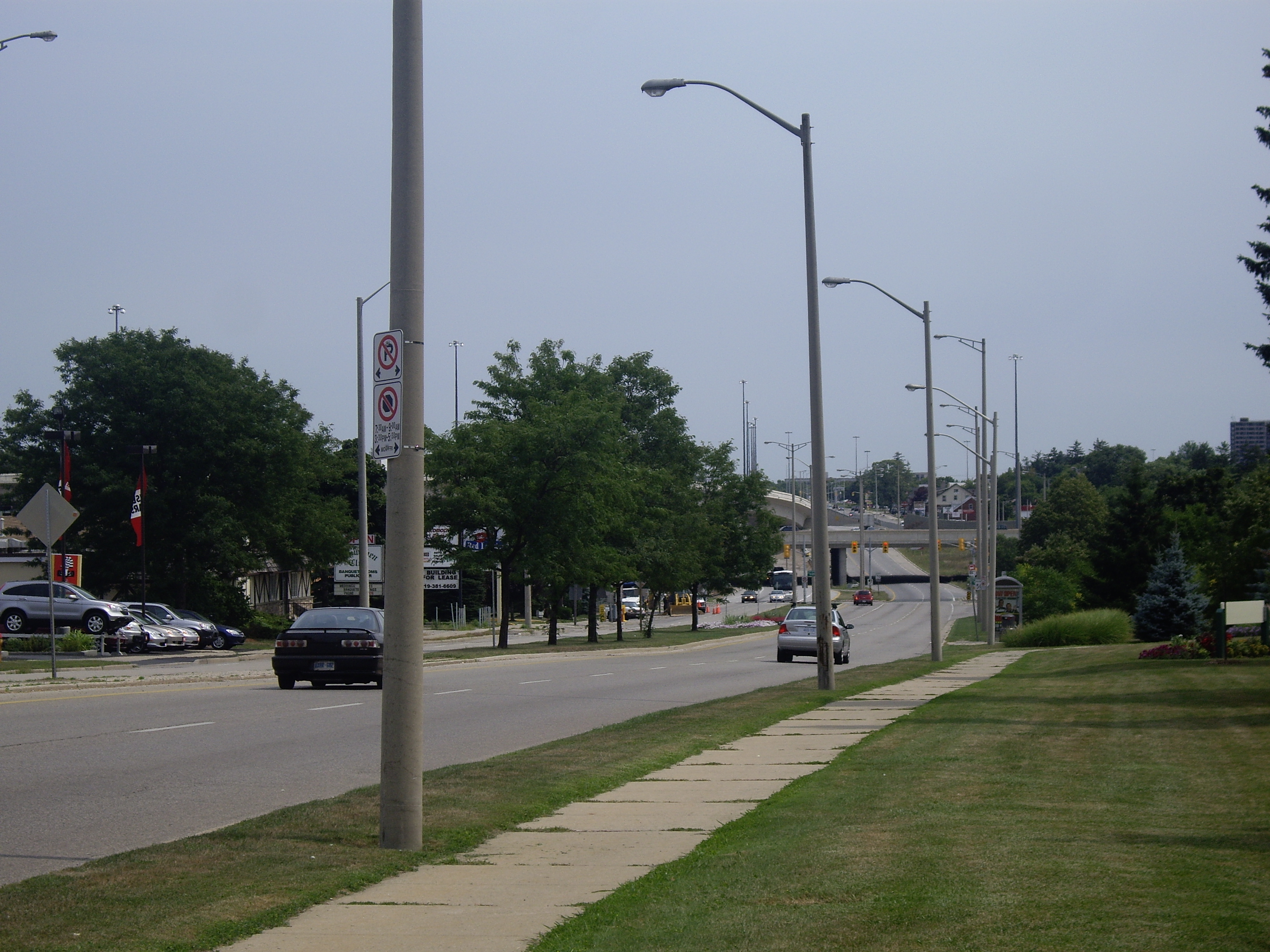 Waterloo Regional Road 15 (King Street) north of the half-clo intersection with Highway 8 looking south in Kitchener, Ontario